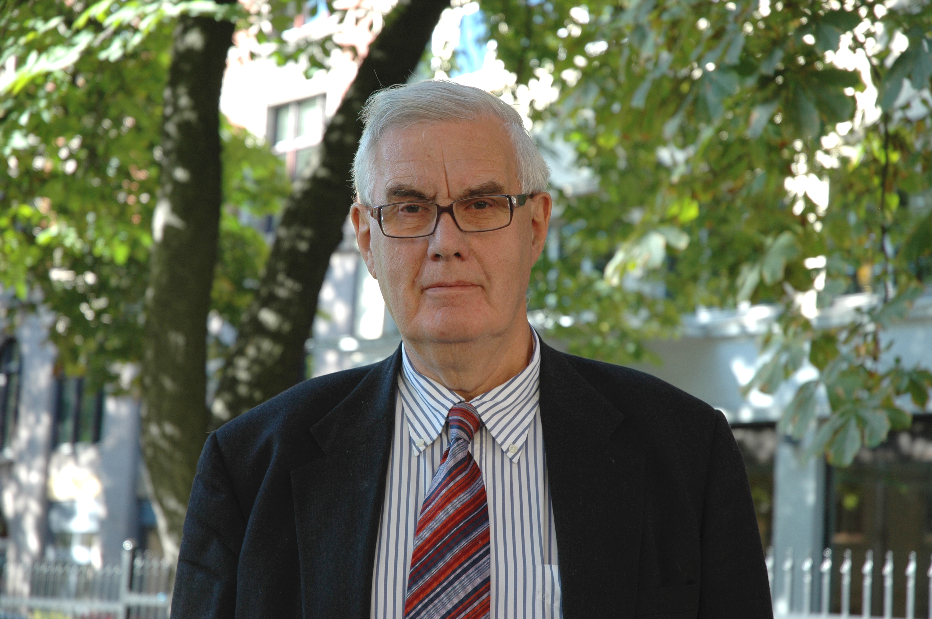 Georg Apenes director of the Norwegian Data Inspectorate